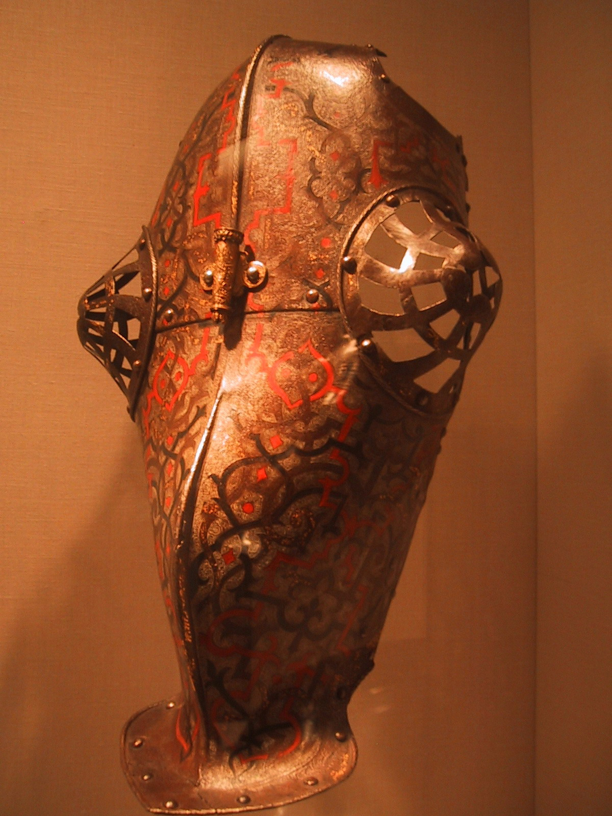 Chanfron which belonged to Lithuanian nobleman Mikalojus Radvila the Black. Armor made by Kunz Lochner in the 16th century.